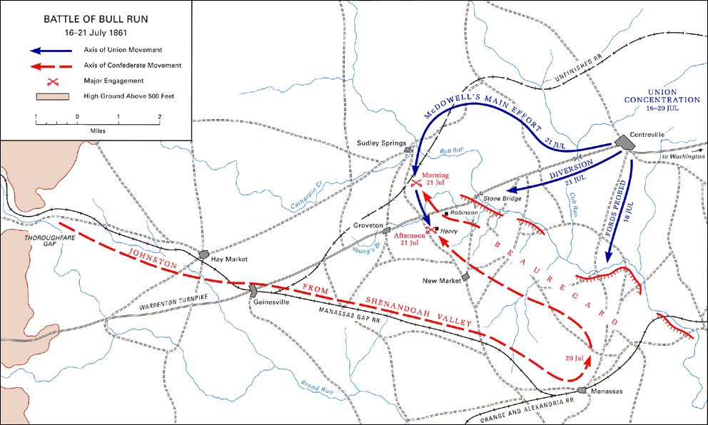 Battle of Bull Run